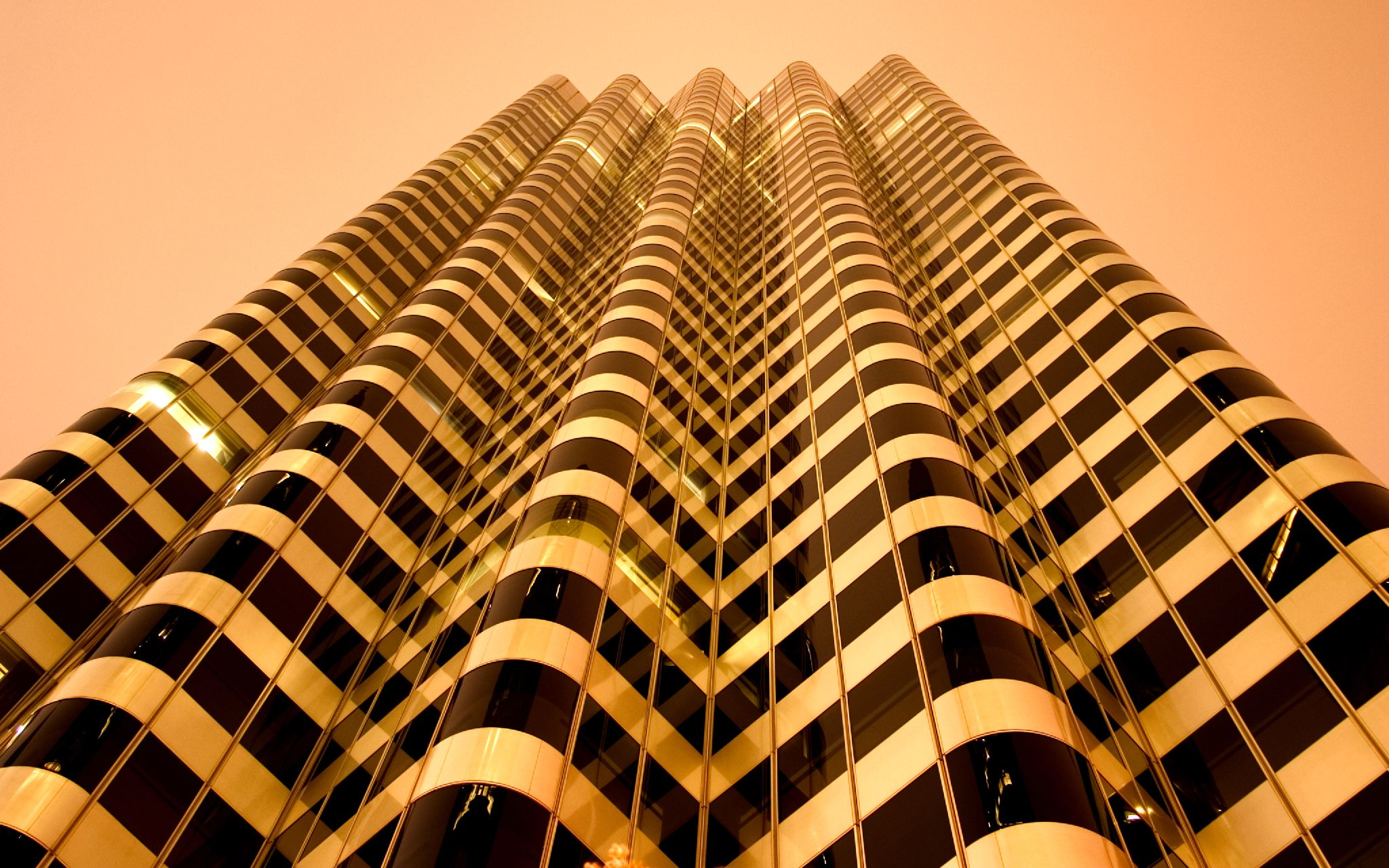 1982, Financial District, Shaklee Terraces, 444 Market St., San Francisco.